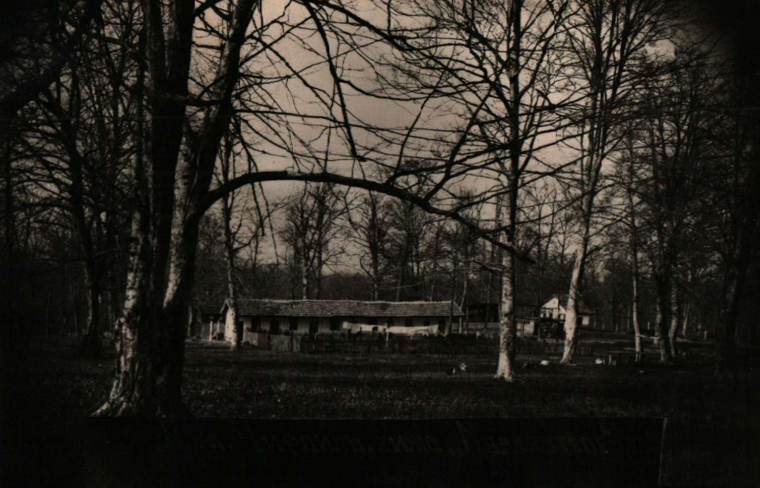 Hut in Dolni chiflik, Bulgaria